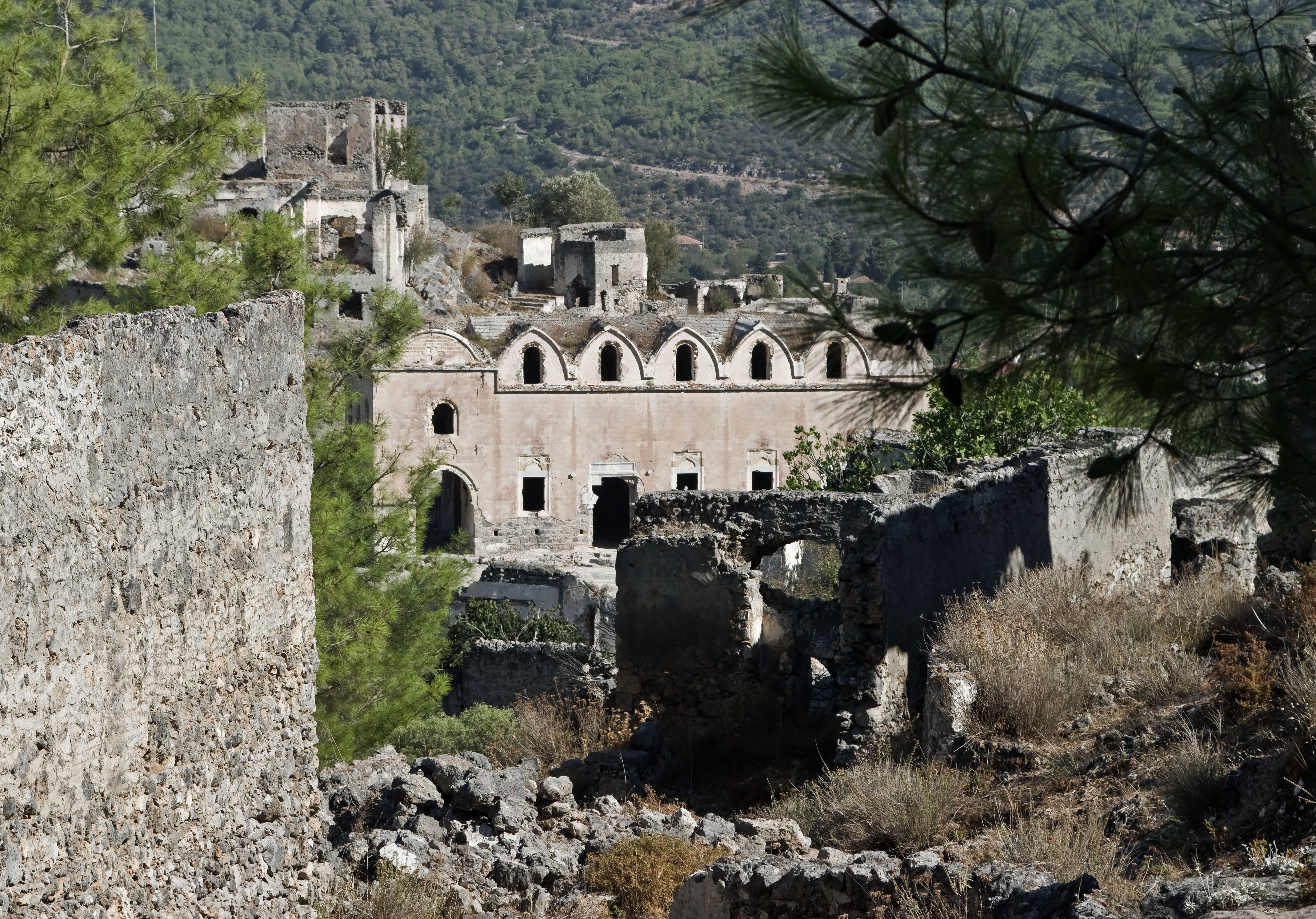 Kayaköy - abandoned village